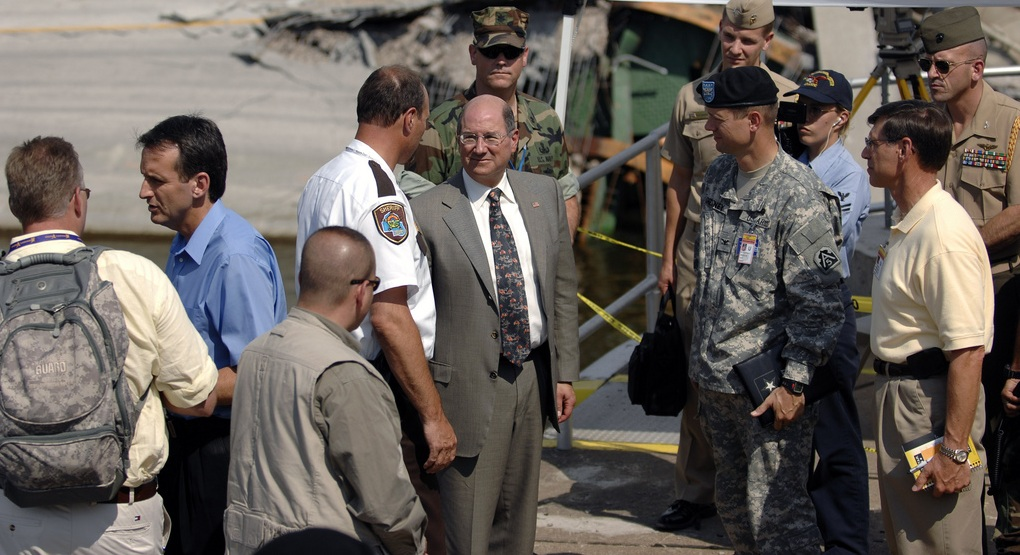 Secretary of the Navy Donald C. Winter tours the site of the Interstate 35W bridge collapse site.